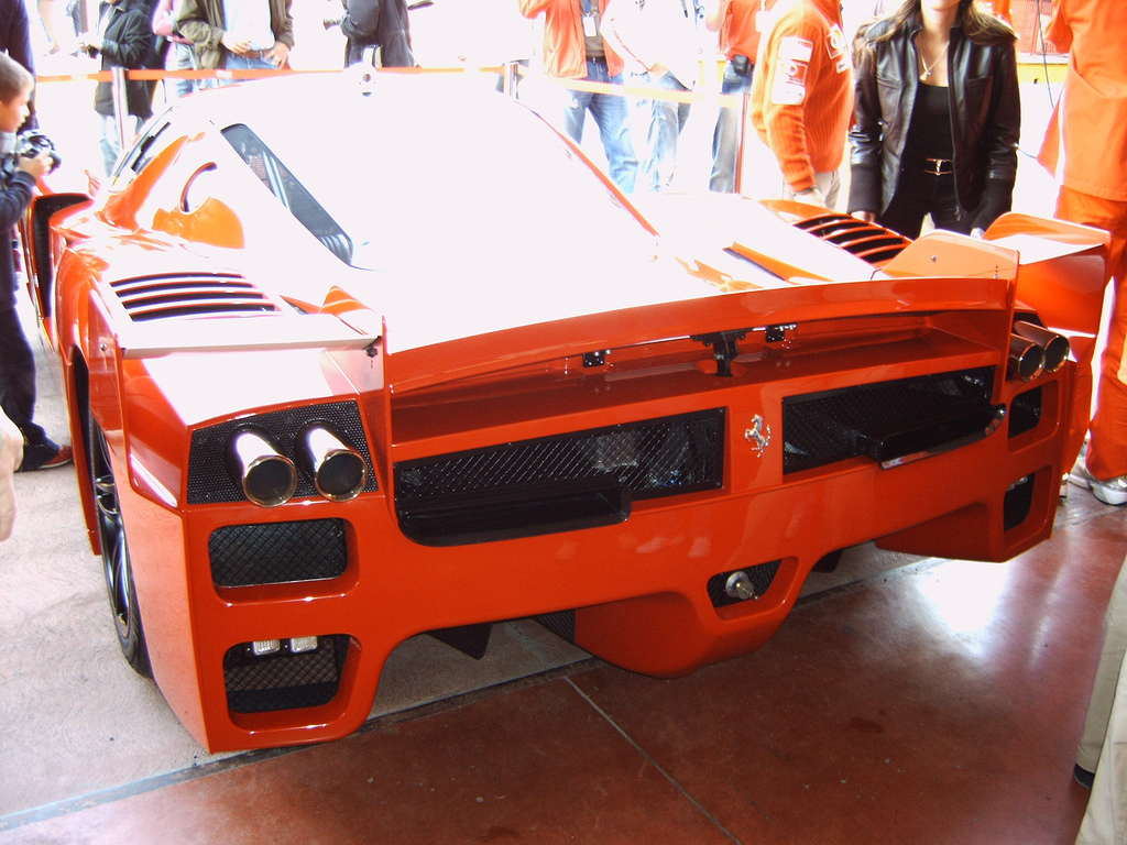 Rear of Ferrari FXX.